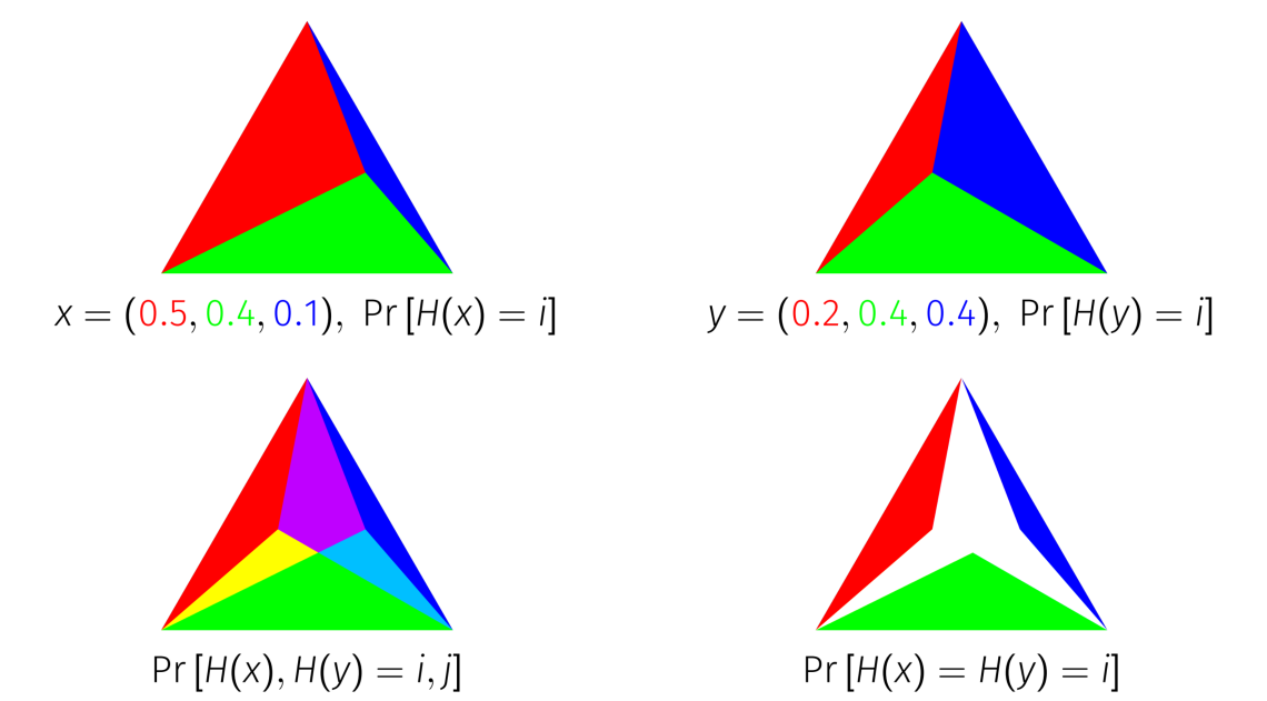 A probability distribution in n dimensions can be represented by dividing up the n-1 simplex into regions with area proportional to the mass on each term. When you do so, the probability jaccard index between two distributions is equal to the area of intersection of simplices that correspond to the same element.